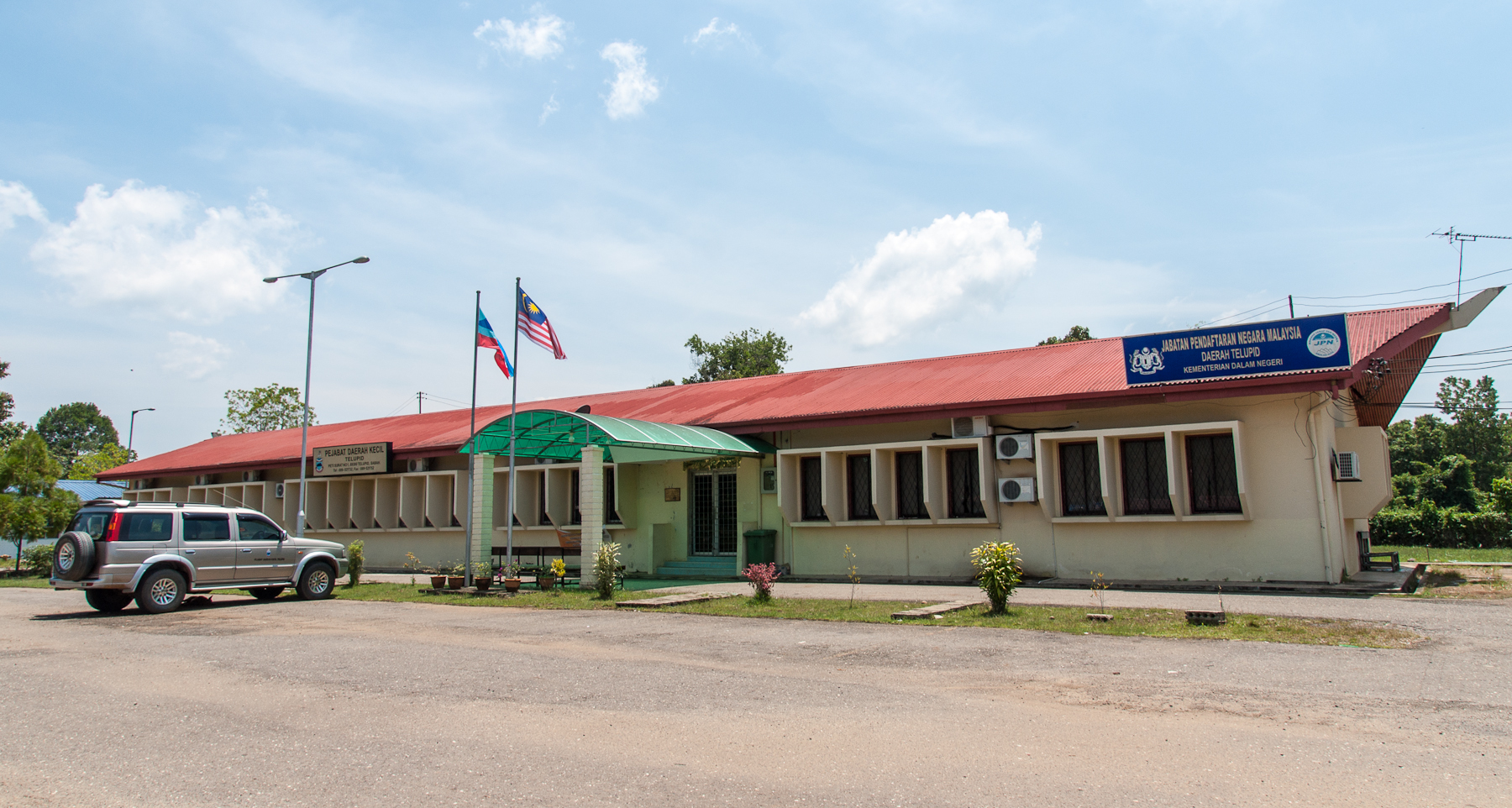 Pejabat Daerah Kecil Telupid